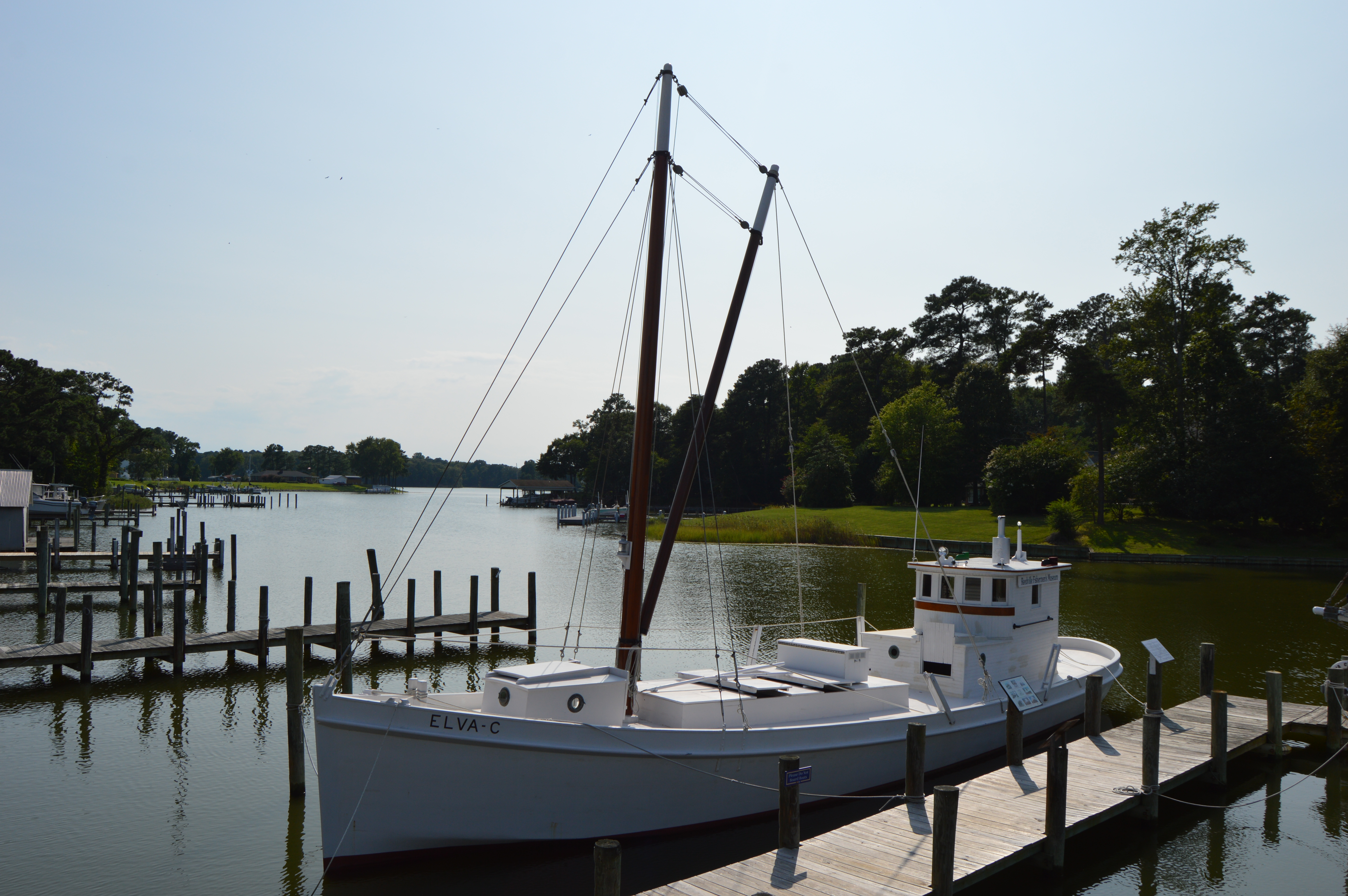 Elva C, an oyster buy-boat, lies at the docks at the Reedville Fishermen's Museum, which is located on Main Street in Reedville, Virginia, United States. Built in 1922, Elva C is listed on the National Register of Historic Places.